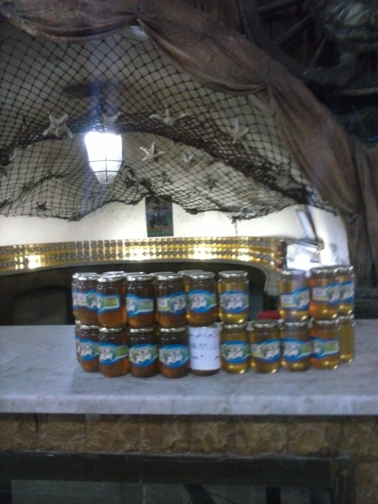 Honey and Molasses in Egypt. This is an image of food from Egypt